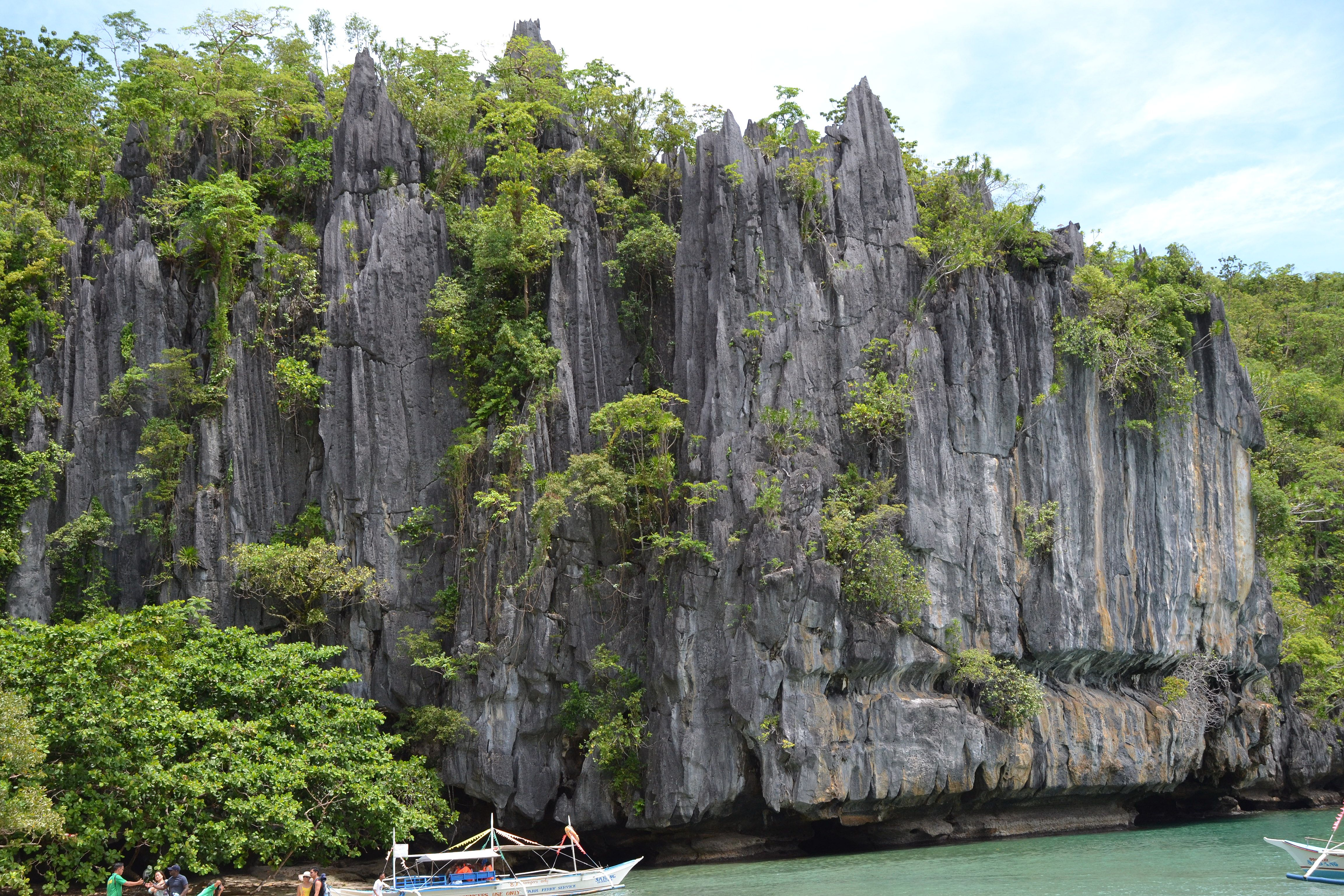 Another look at the large outcrop. While approaching the boat jetty in Sabang, a similar outcrop had a series of white marks at the bottom which the guide explained as' elephant feet'. They did look it. However, he did not slow down, and it was on the other side, seen through the darkened 'sunglass' windows of the car, so I could not photograph it. (Puerto Princesa, Philippines, May 2013)